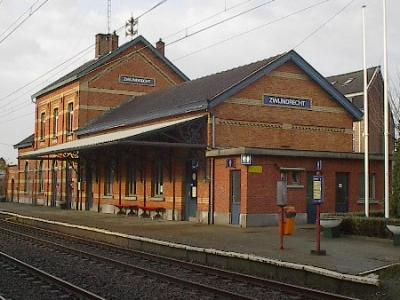 Zwijndrecht railway station, Belgium